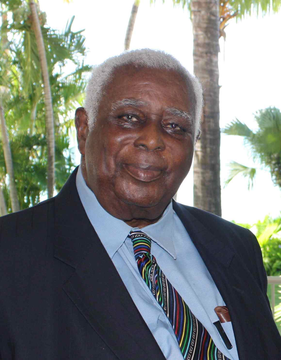 Former Governor-General of St. Kitts and Nevis, Sir Cuthbert Sebastian.